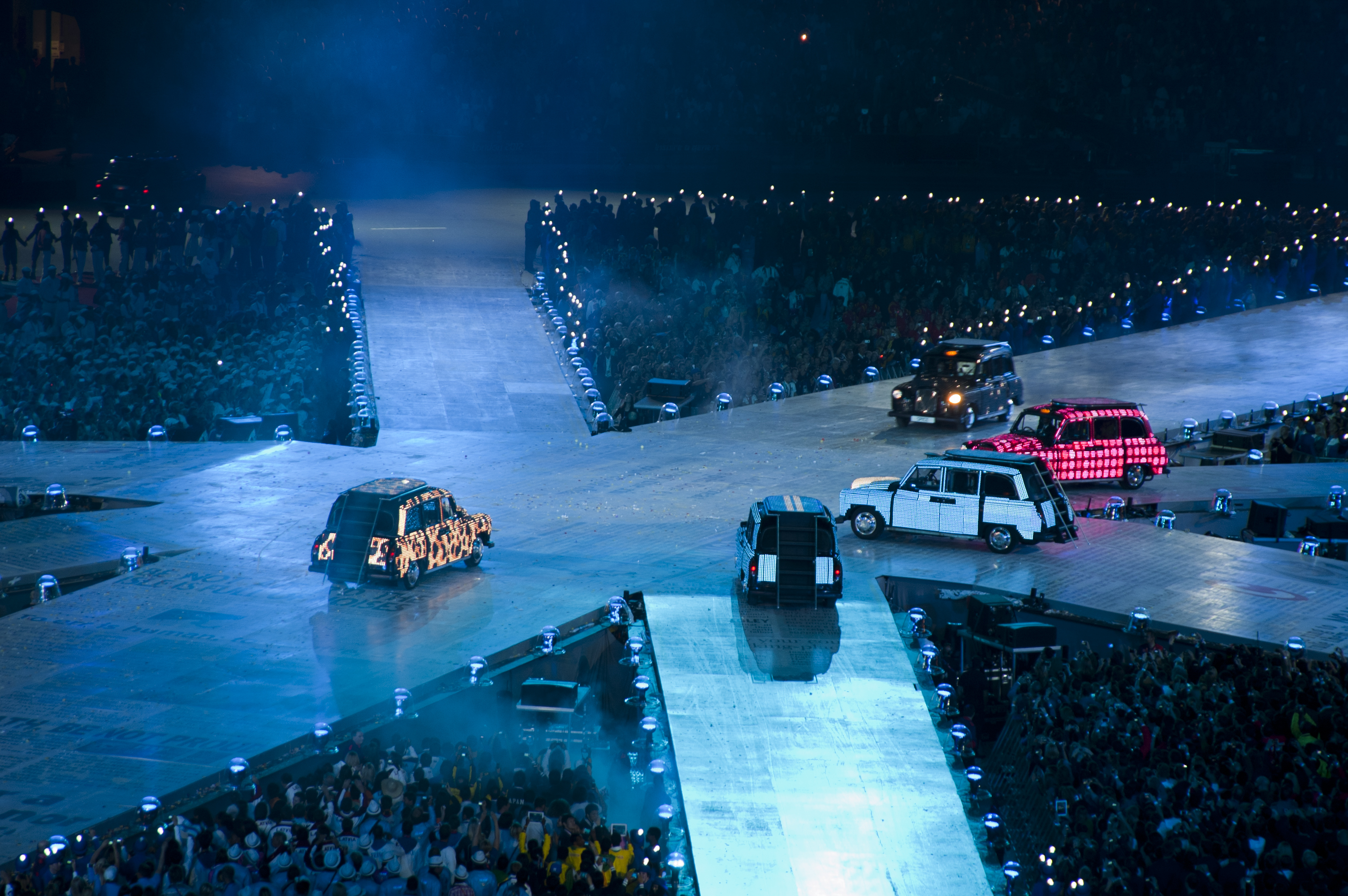 Five London taxi cabs carrying the Spice Girls at the 2012 Olympics Closing Ceremony.